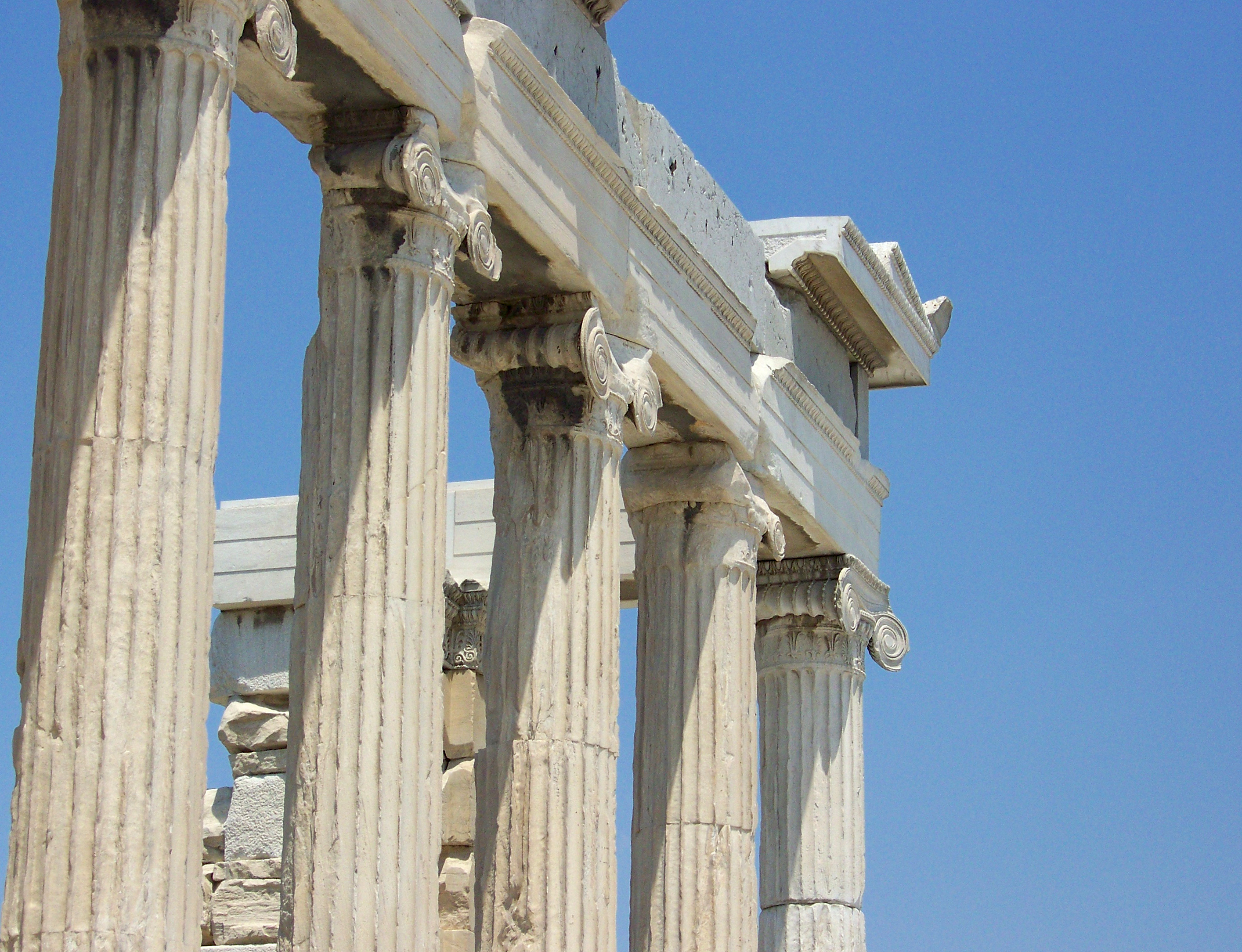 Columns (eastern facade) of the Erechtheum, Acropolis of Athens, Greece.